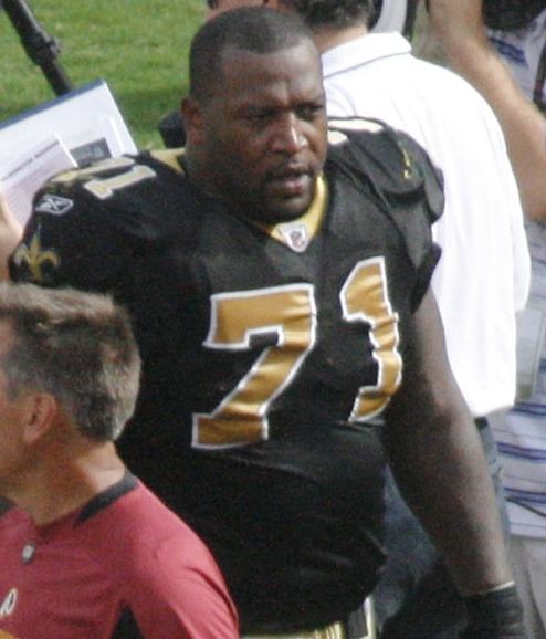 Nendrick Clancy of the New Orleans Saints. Cropped from original photo.